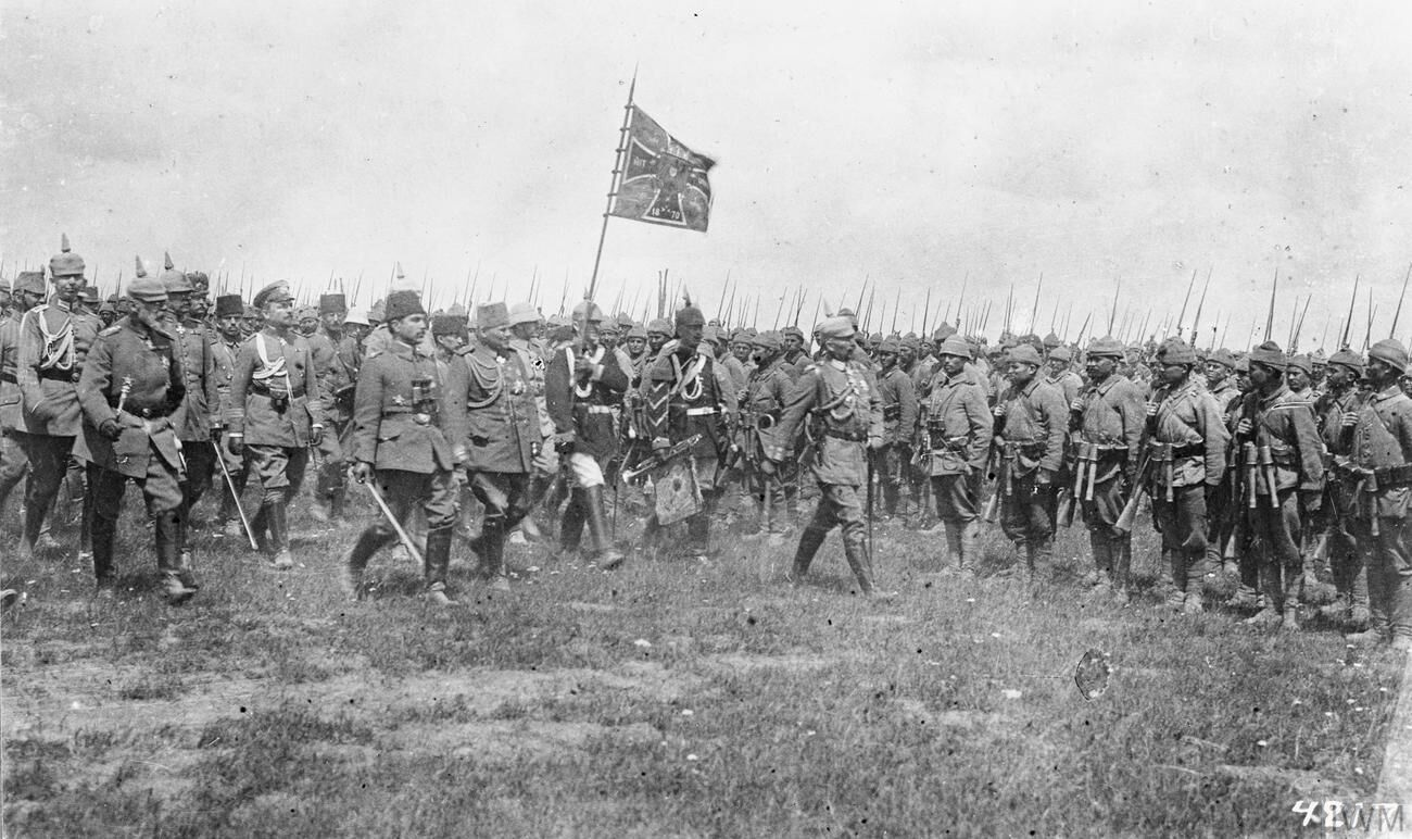 Kaiser Wilhelm II inspecting Turkish troops of the 15th Corps in East Galicia, Poland. Prince Leopold of Bavaria, the Supreme Commander of the German Army on the Eastern Front, is second from the left.